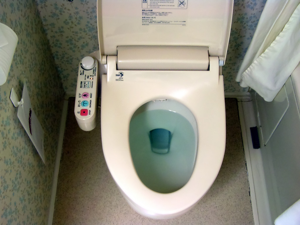 A modern Japanese toilet.